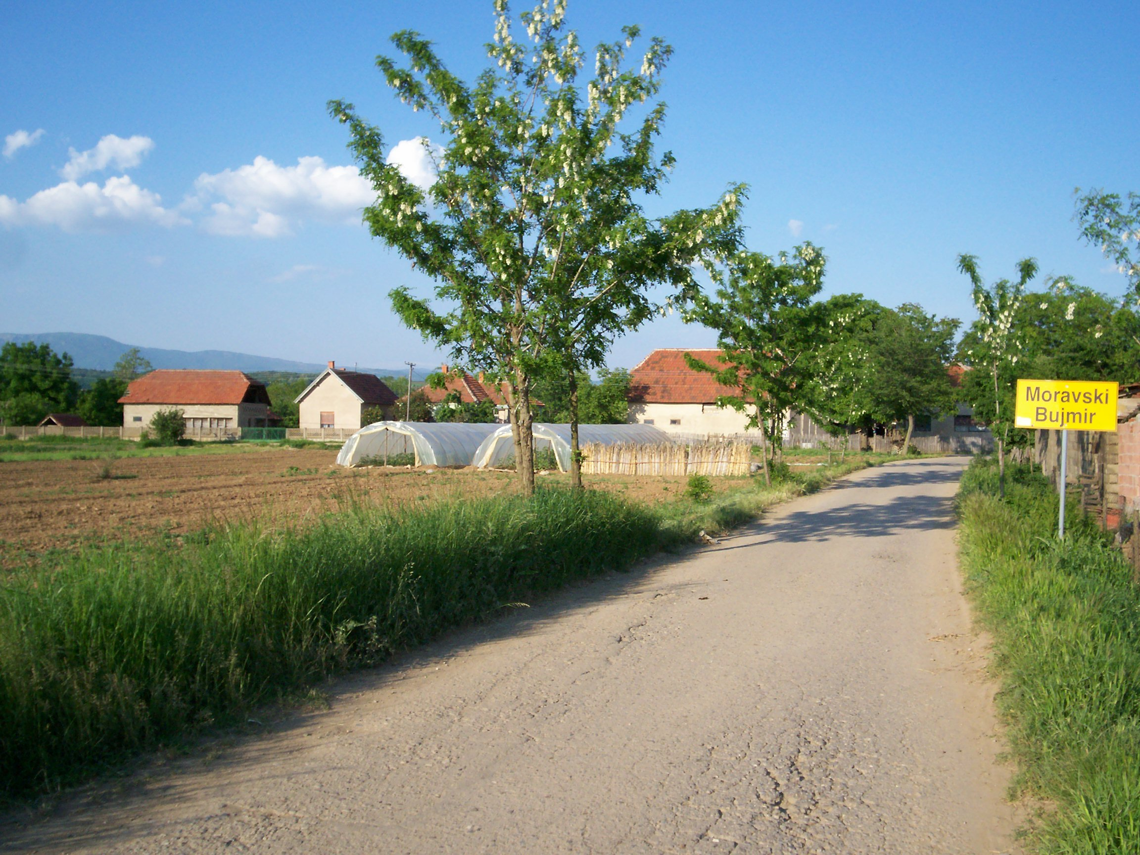 village Moravski Bujmir, Serbia